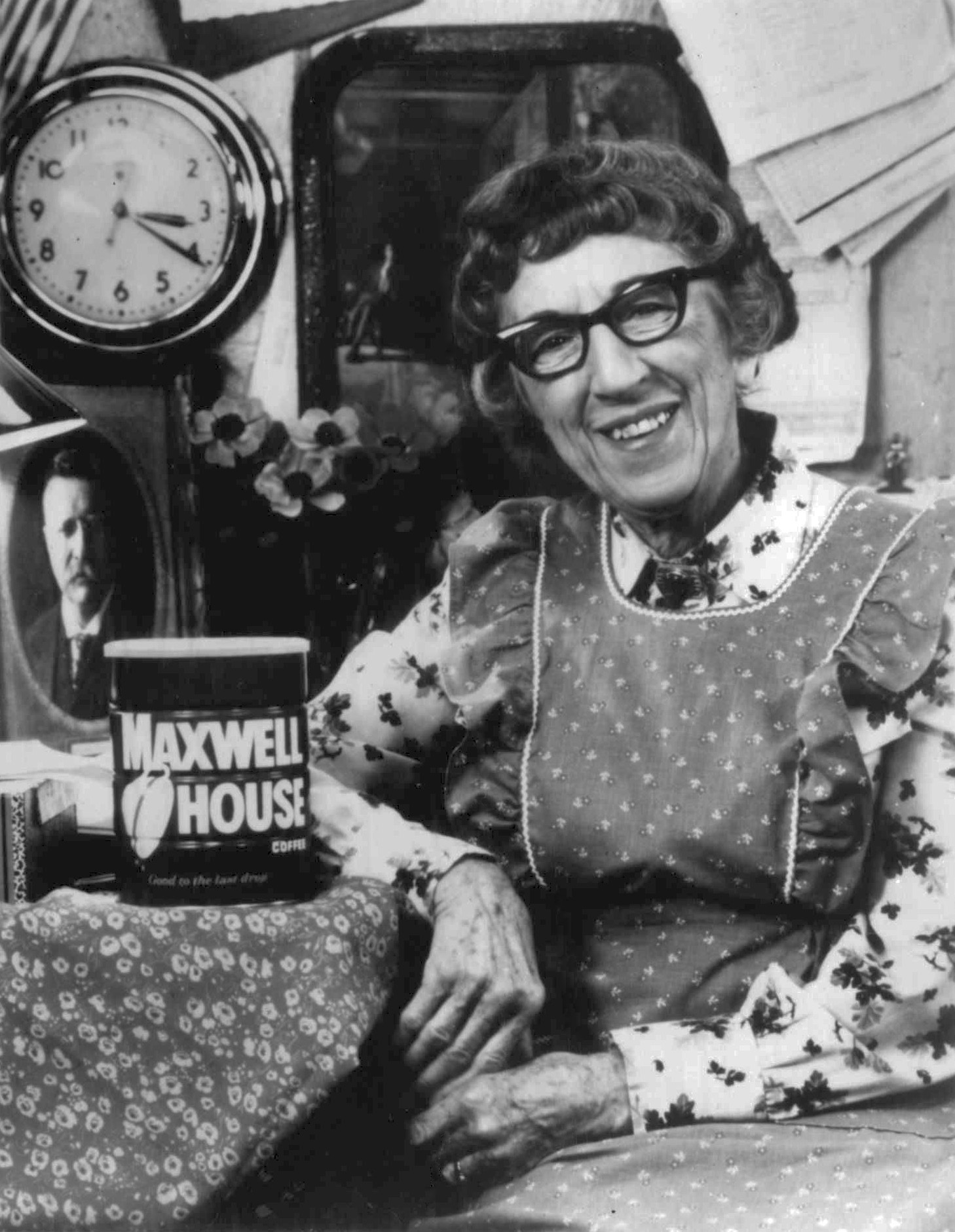 Publicity photo of American actress, Margaret Hamilton, as general store-keeper "Cora" for Maxwell House Coffee, circa 1977.